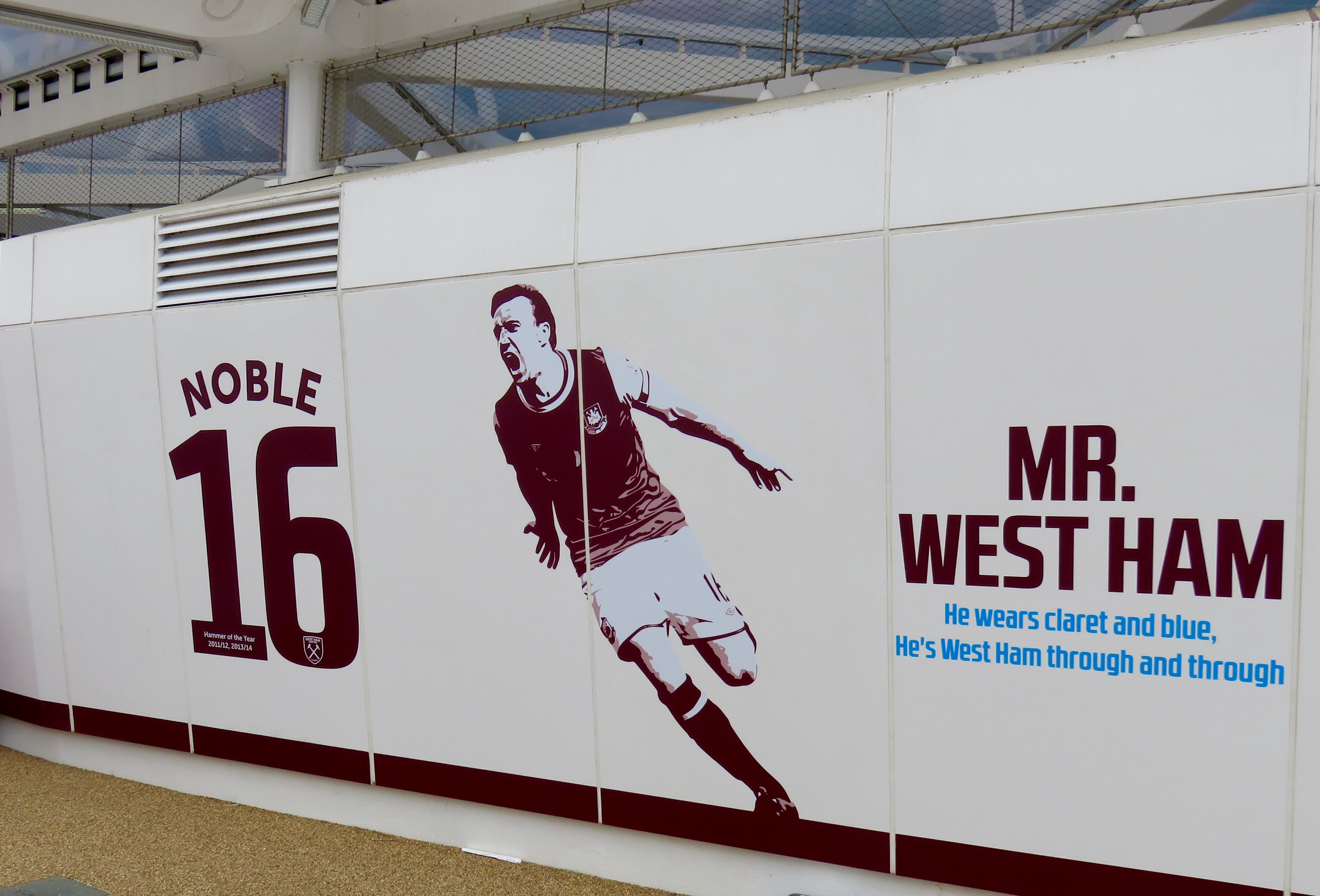 A mural dedicated to West Ham United player and captain, Mark Noble, at the London Stadium.